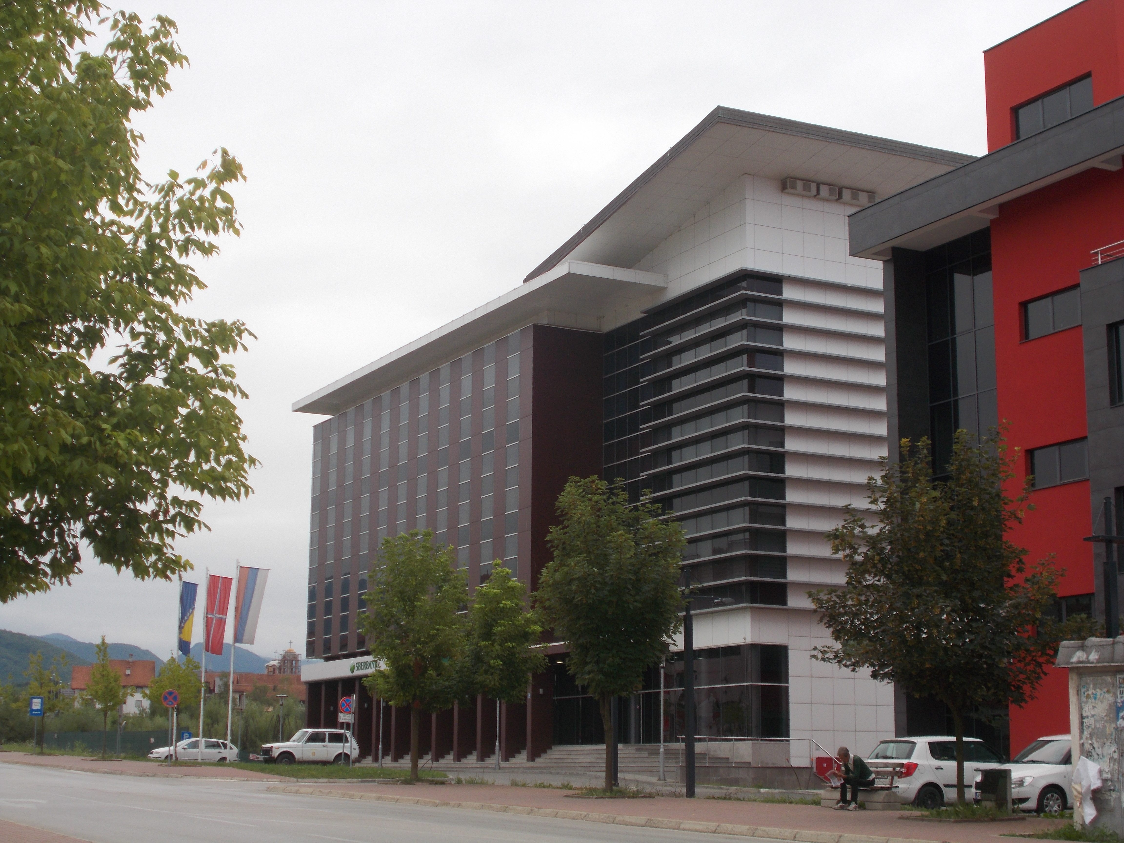 East New Sarajevo, urbanized core